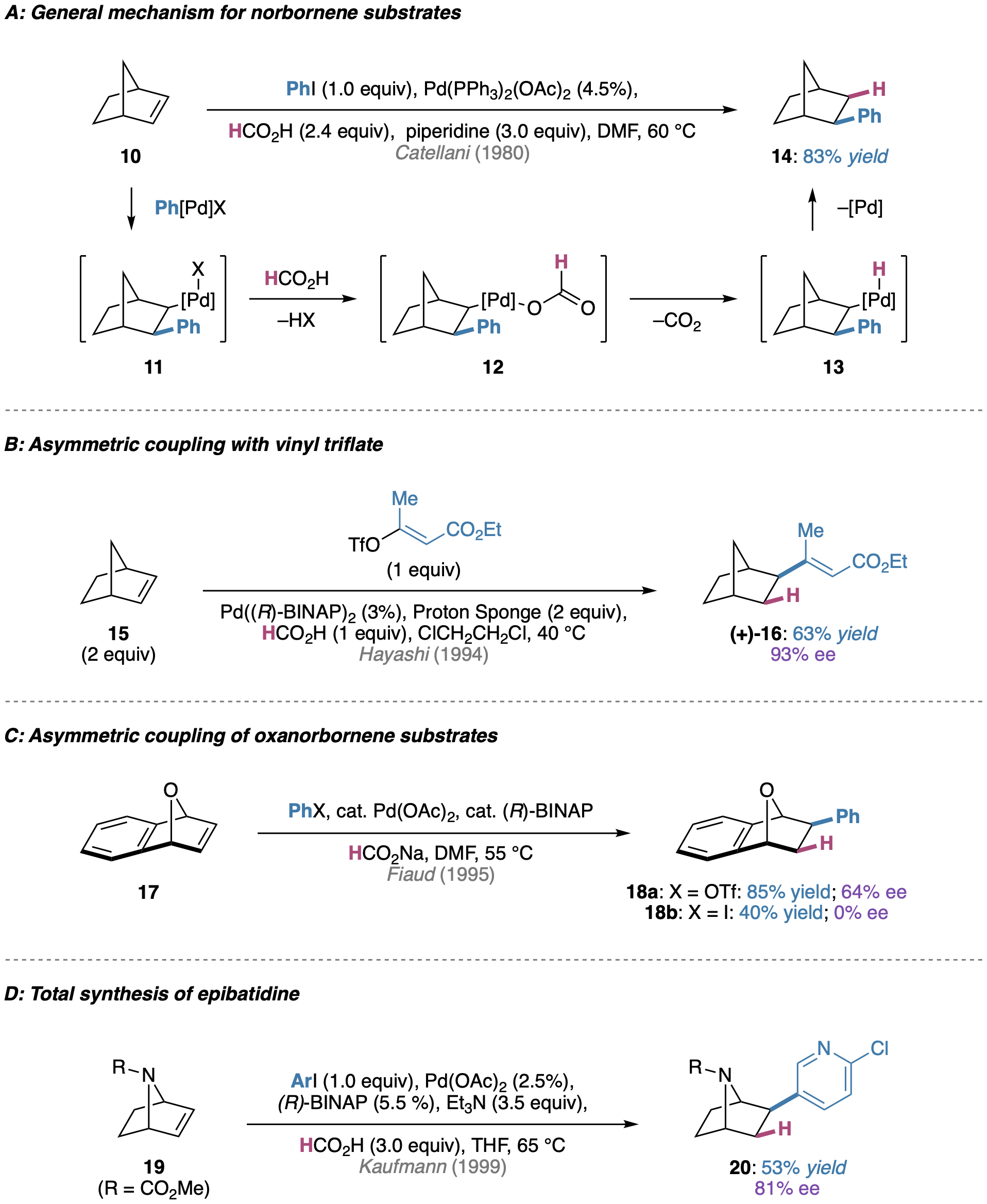 Reactions with Strained Alkenes. (A) Illustration of the diastereospecificity of migratory insertion and β-hydride elimination with norbornene substrates. (B) Seminal example of asymmetric coupling between a vinyl triflate and a norbornene substrate. (C) Illustrative example of the influence of the halide/pseudohalide used in the reductive Heck reaction of an oxanorbornene substrate. (D) Application of the reductive Heck reaction in the total synthesis of epibatidine from a protected azanorbornene.